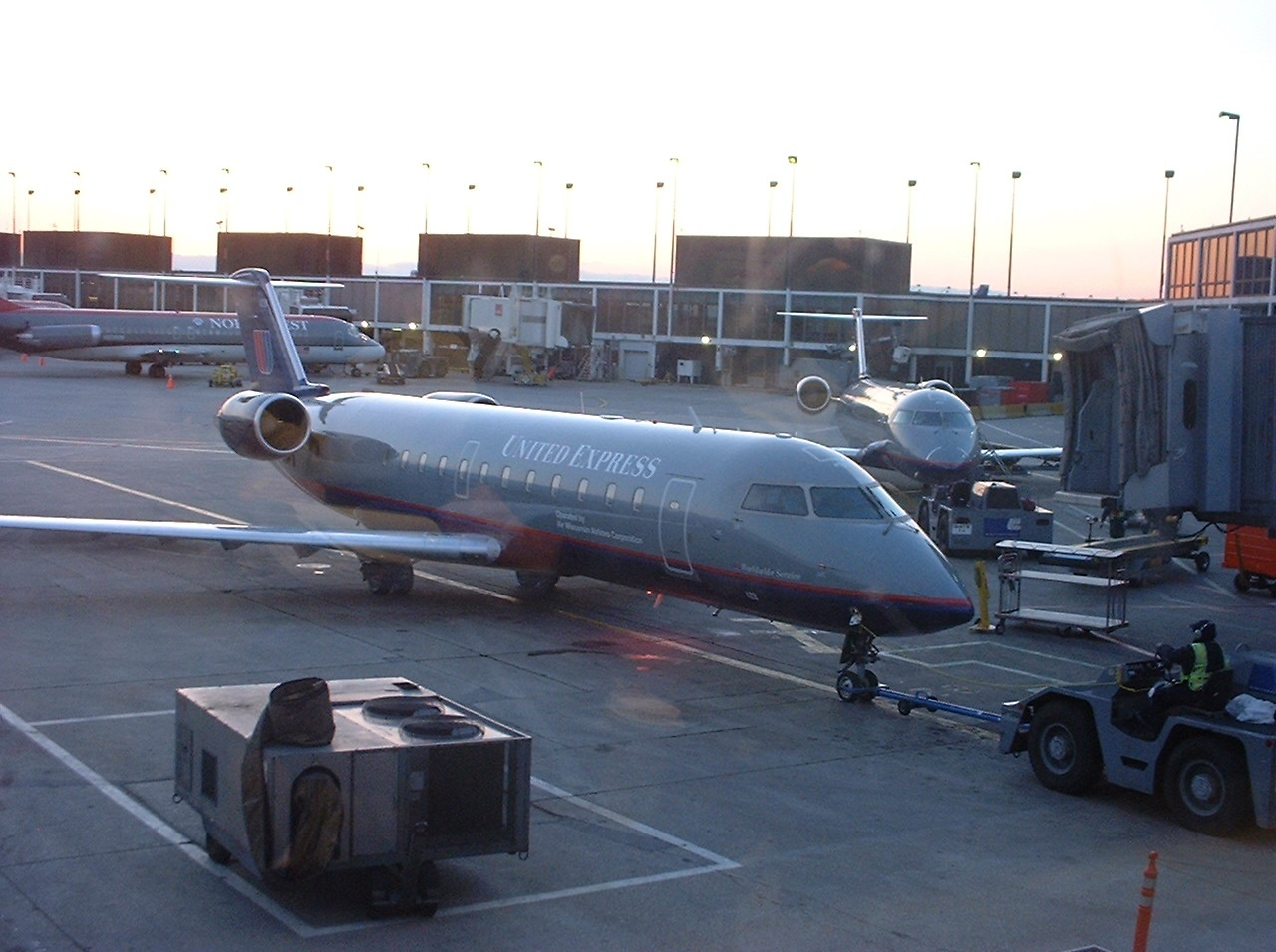 This picture was taken from the United Express terminal at O'hare